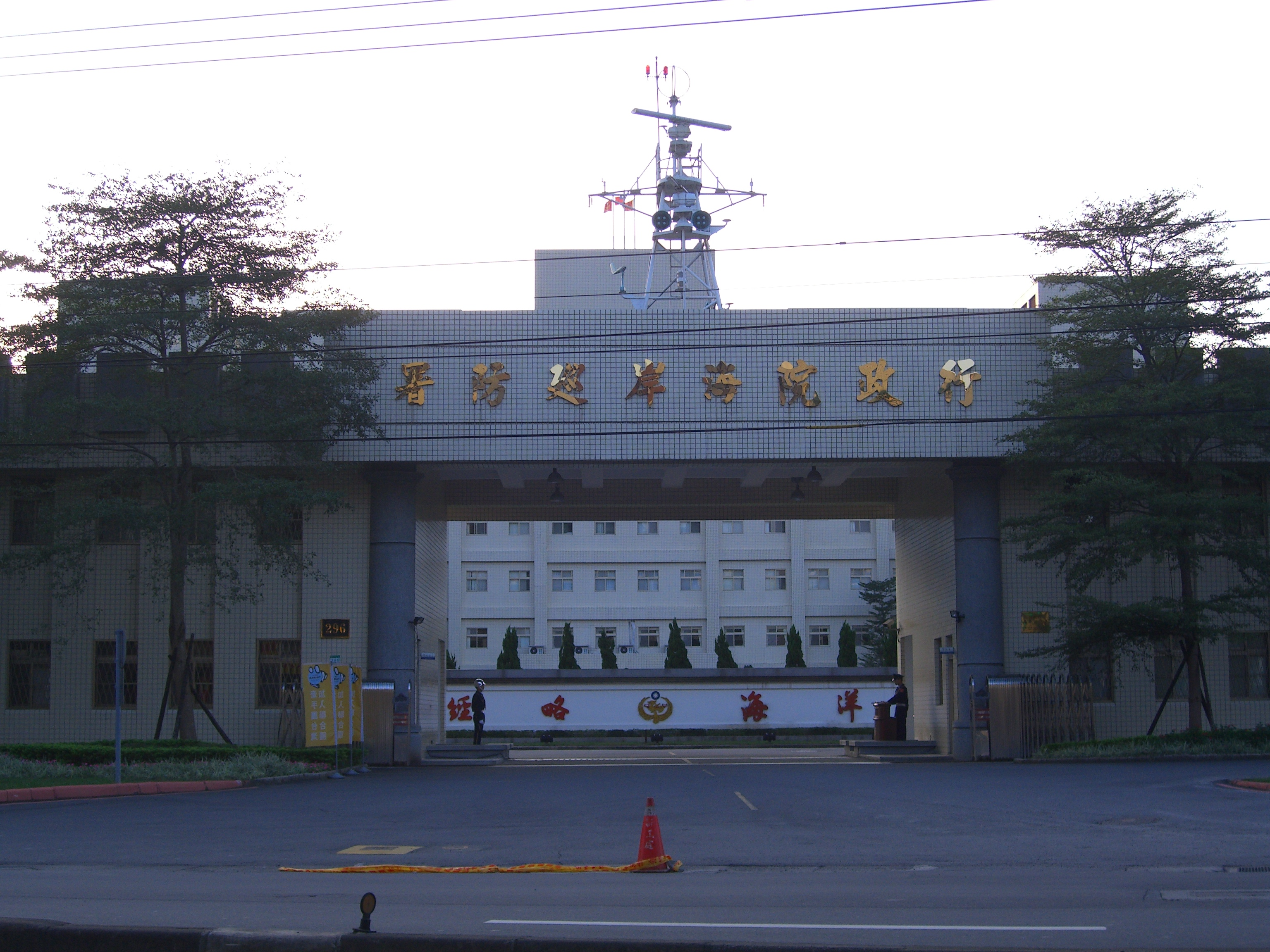 Headquarters of Coast Guard Administration, Executive Yuan. Address: No.296, Xinglong Road Section 3, Wenshan District, Taipei City.中文（台灣）: 行政院海岸巡防署本部，地址：臺北市文山區興隆路三段296號。